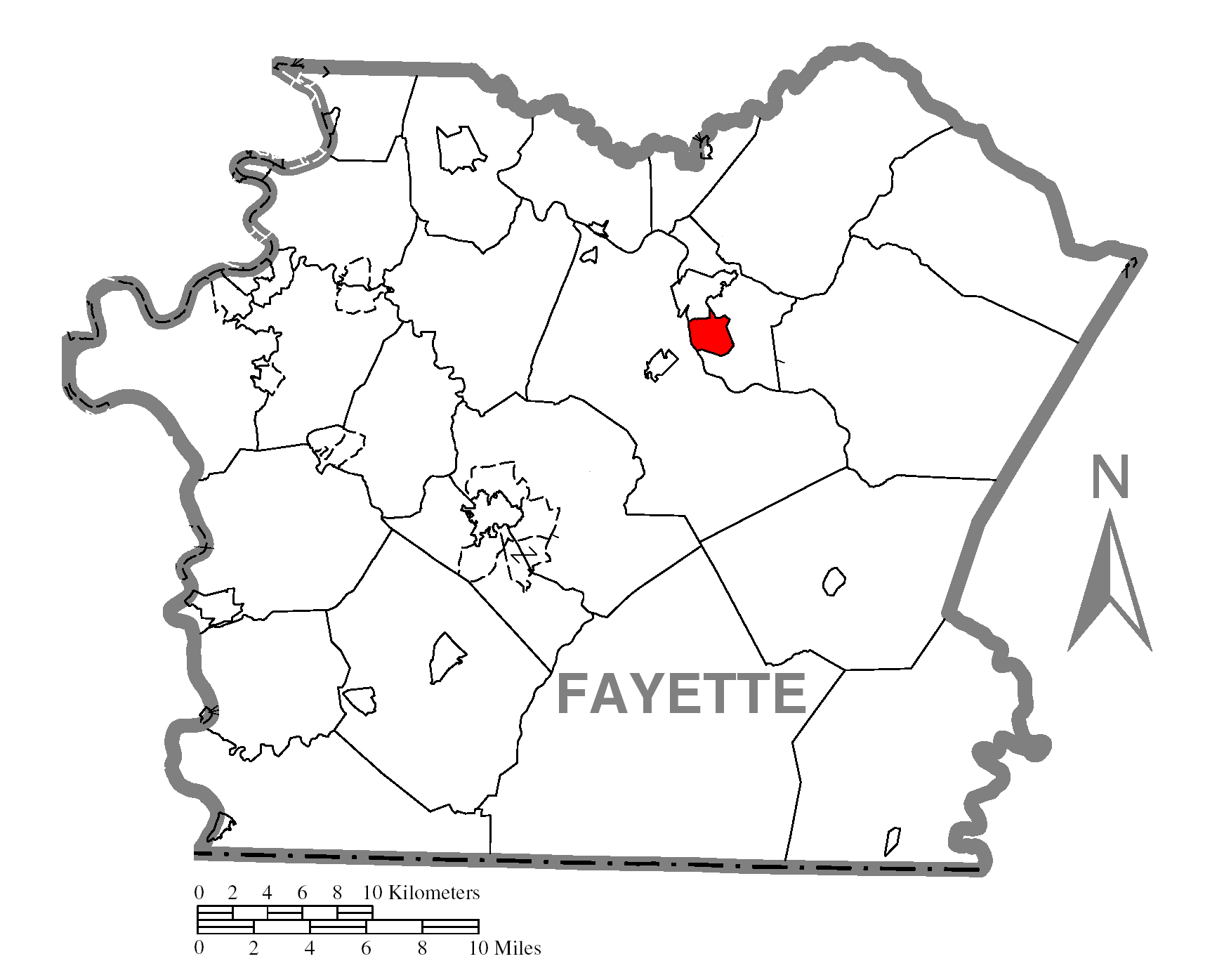 Map of Fayette County higlighting South Connellsville.